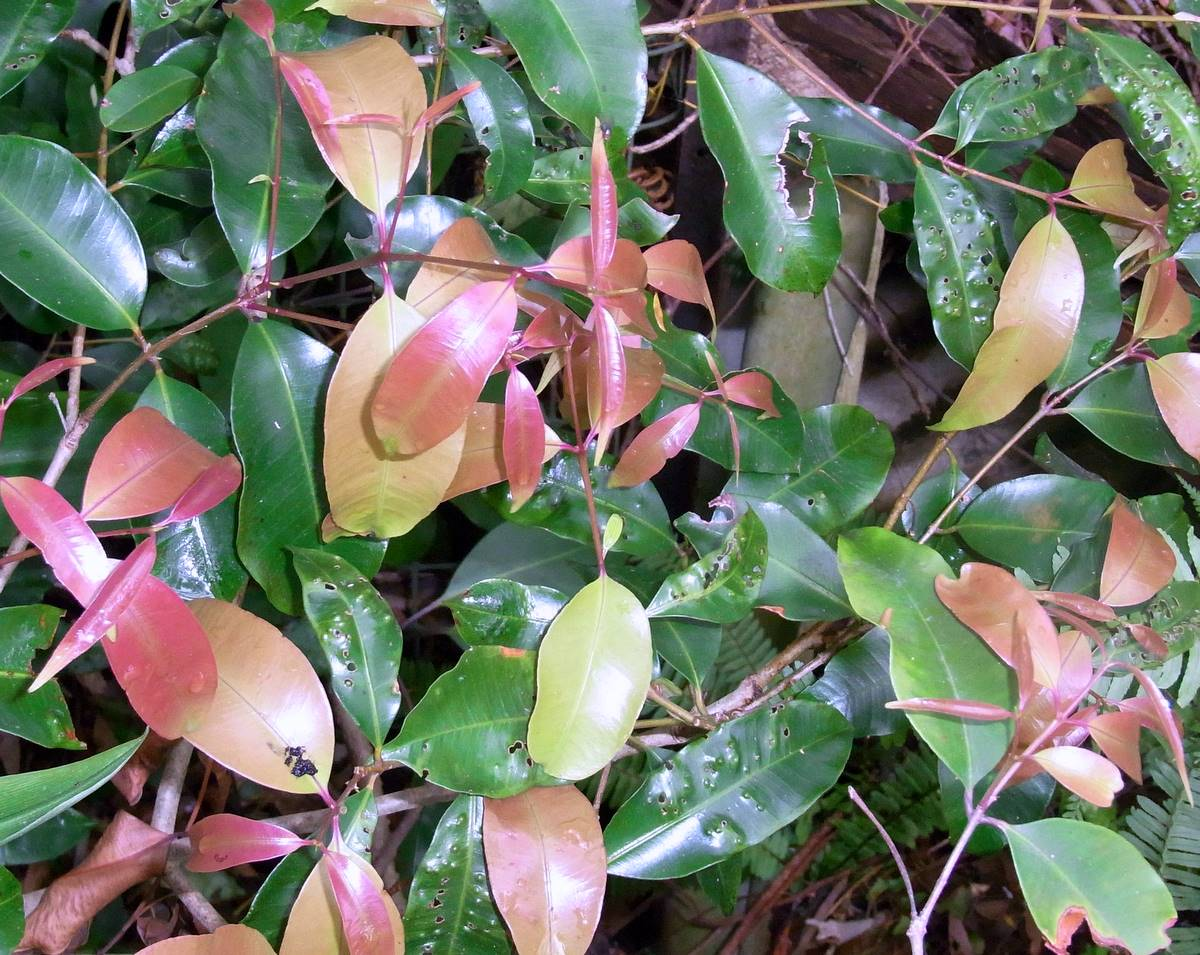 Syzygium crebrinerve - new leaves (seed source Dorrigo)